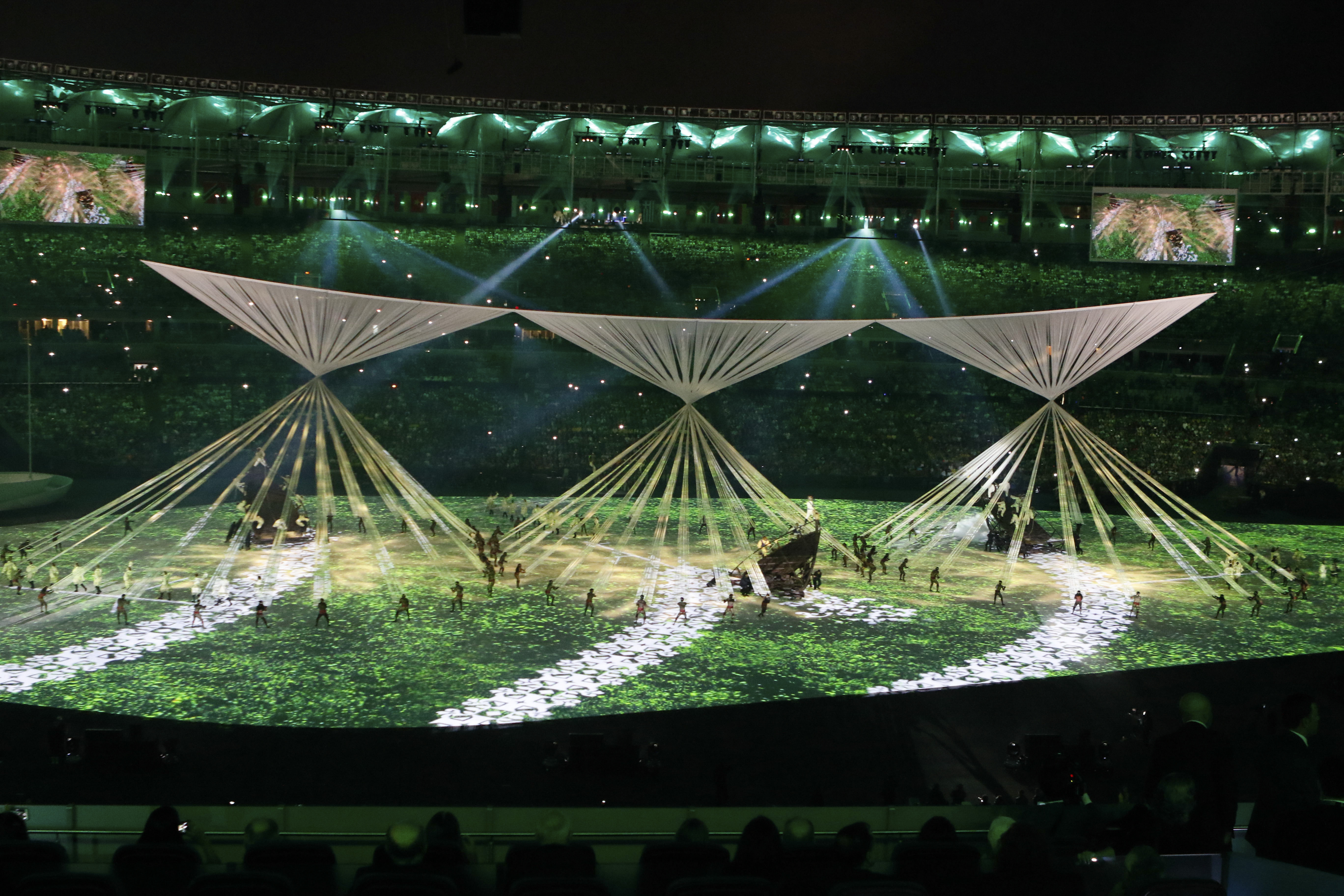 Rio de Janeiro - Cerimônia de abertura dos Jogos Olímpicos Rio 2016 no Estádio do Maracanã (Fernando Frazão/Agência Brasil)